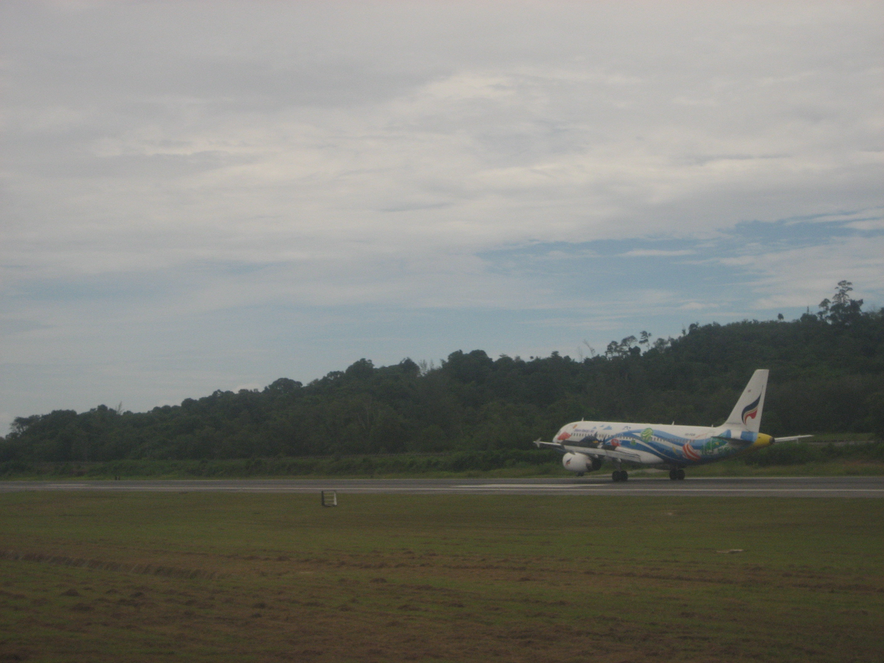 Phuket International Airport runway